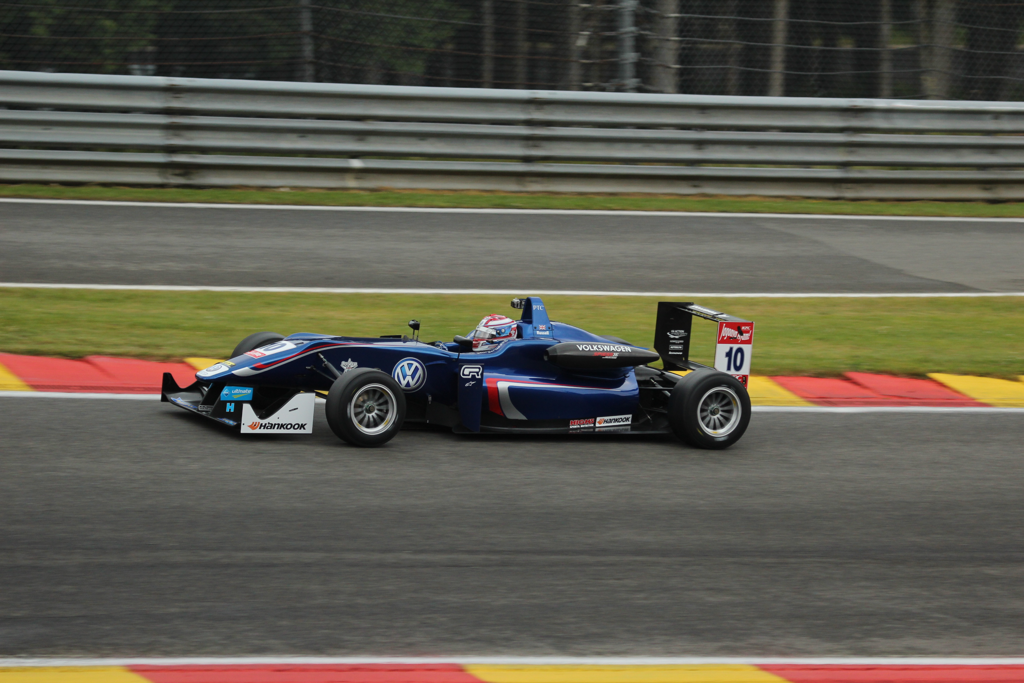 George Russell at Spa in 2015, European Formula 3 Championship